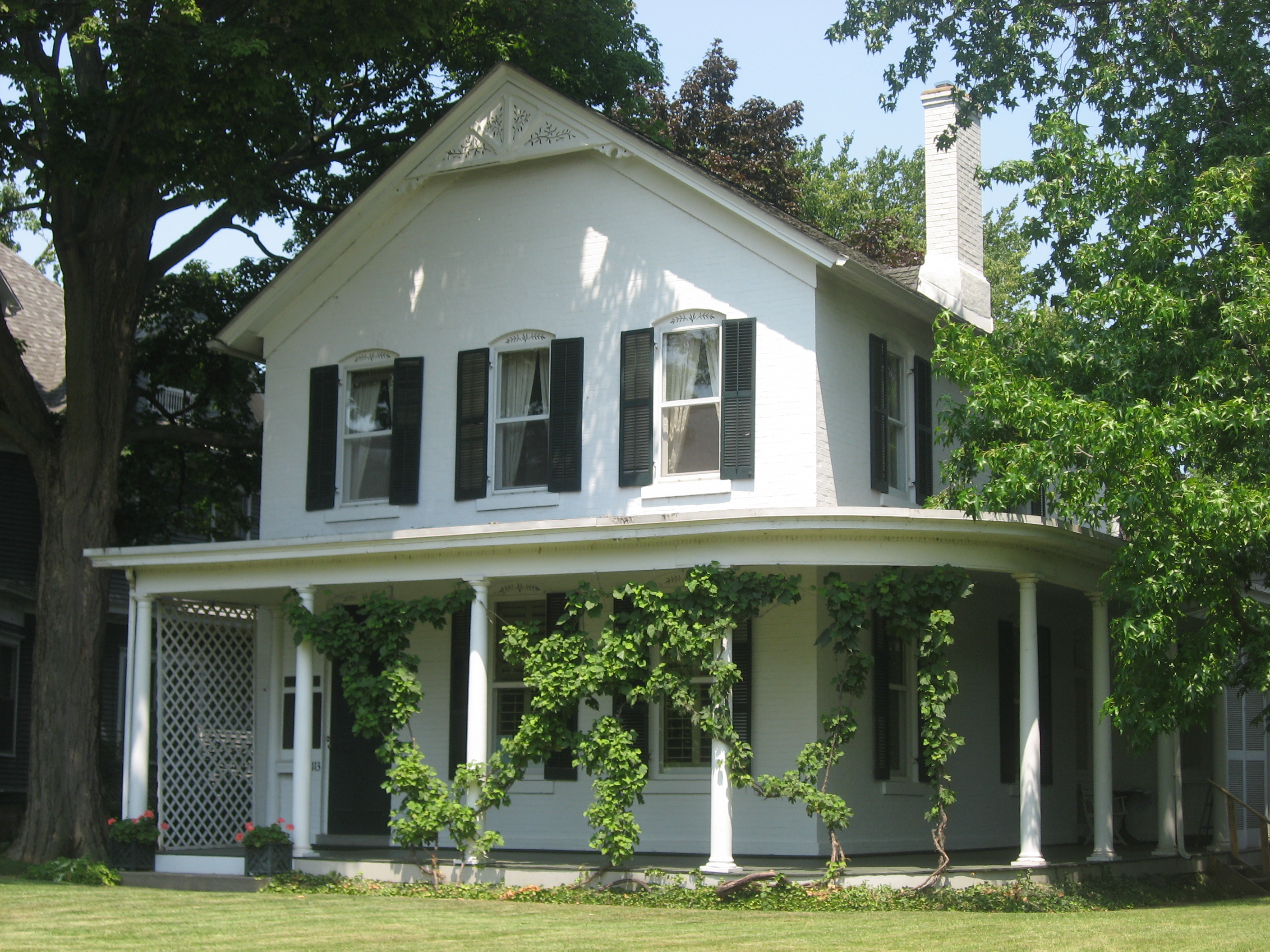 Front of the Samuel Leeper Jr. House, located at 113 W. North Shore Drive in South Bend, Indiana, United States. Built in 1888, it is listed on the National Register of Historic Places, and it is part of a locally designated historic district.